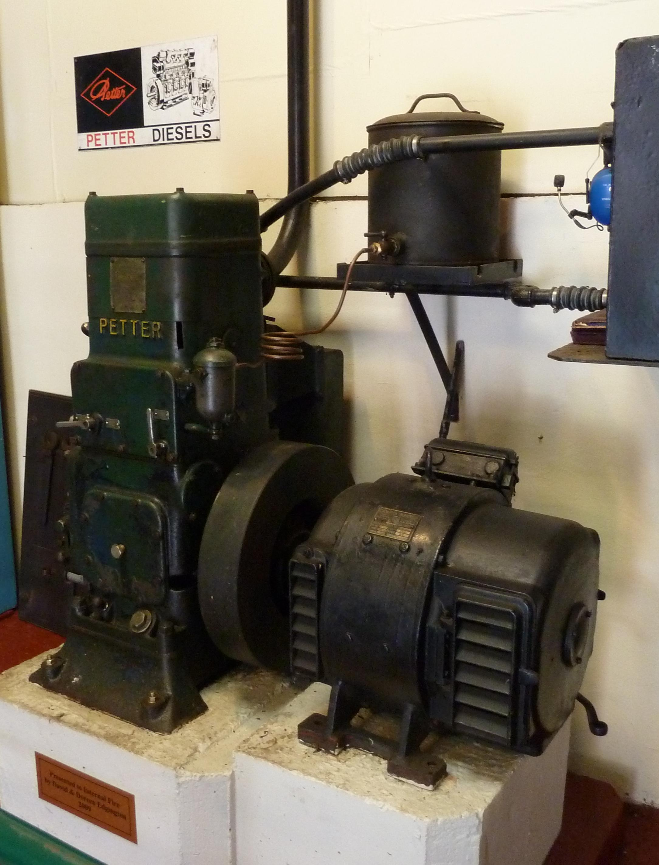 Petter 'Harmonic Induction' two-stroke uniflow diesel engine, driving a generator set.